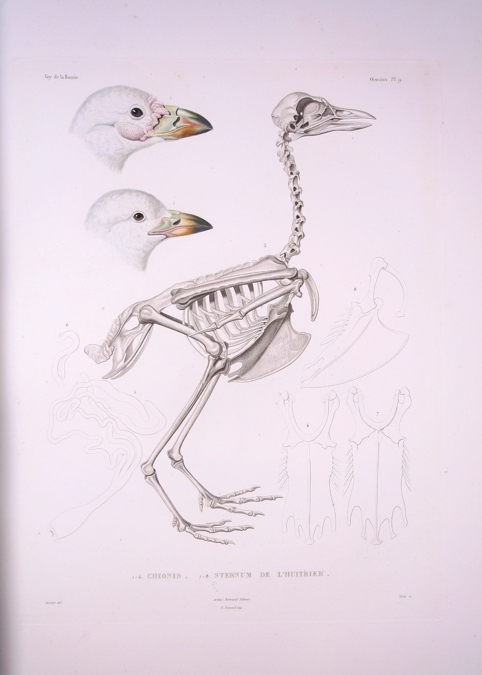 Chionis alba 1: head of adult 2: head of juvenile 3: skeleton 4: sternum from below 5,6: intestines 7: Haematopus sp., sternum from below 8: Haematopus sp., sternum from the side